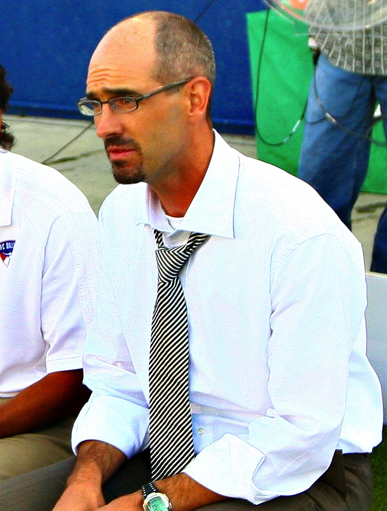 Steve Morrow coaches at FC Dallas. Edited from original form.